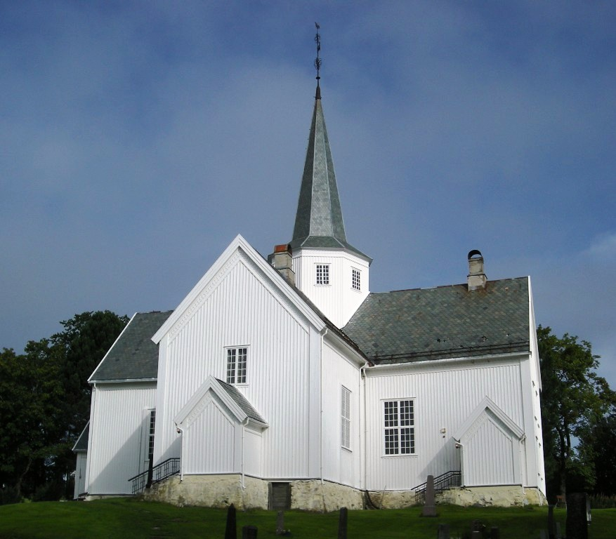 Vardal church